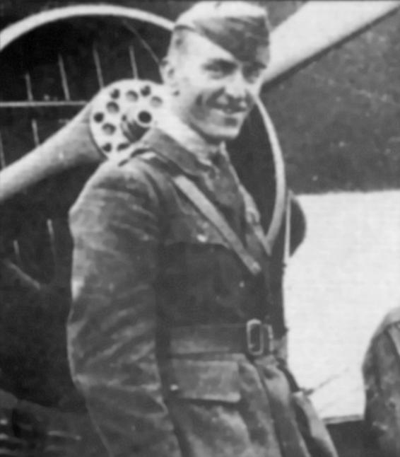 Image of Eddie Rickenbacker from the public domain book A Concise History of the U.S. Air Force by Stephen L. McFarland.